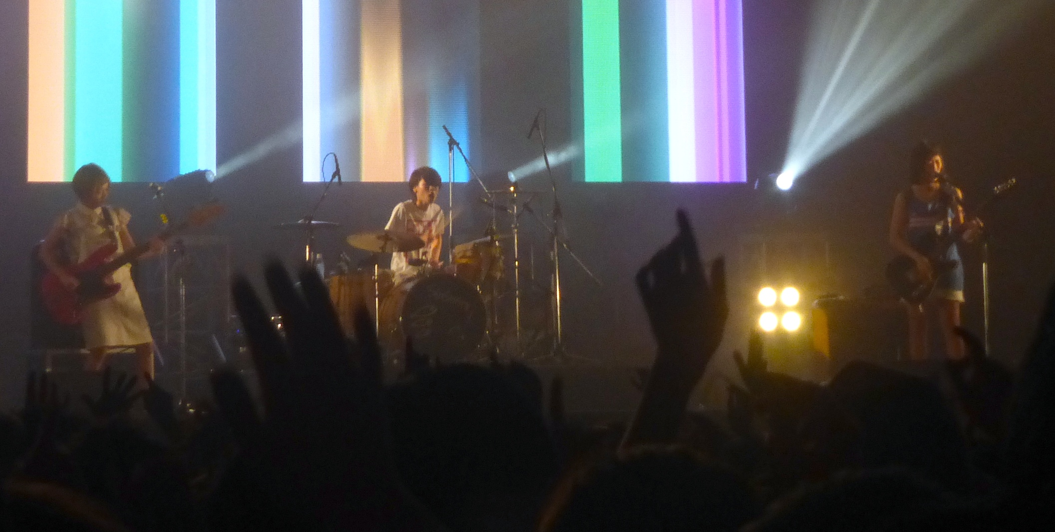 Shishamo performing on the Rainbow Stage at Tokyo Summer Sonic Festival